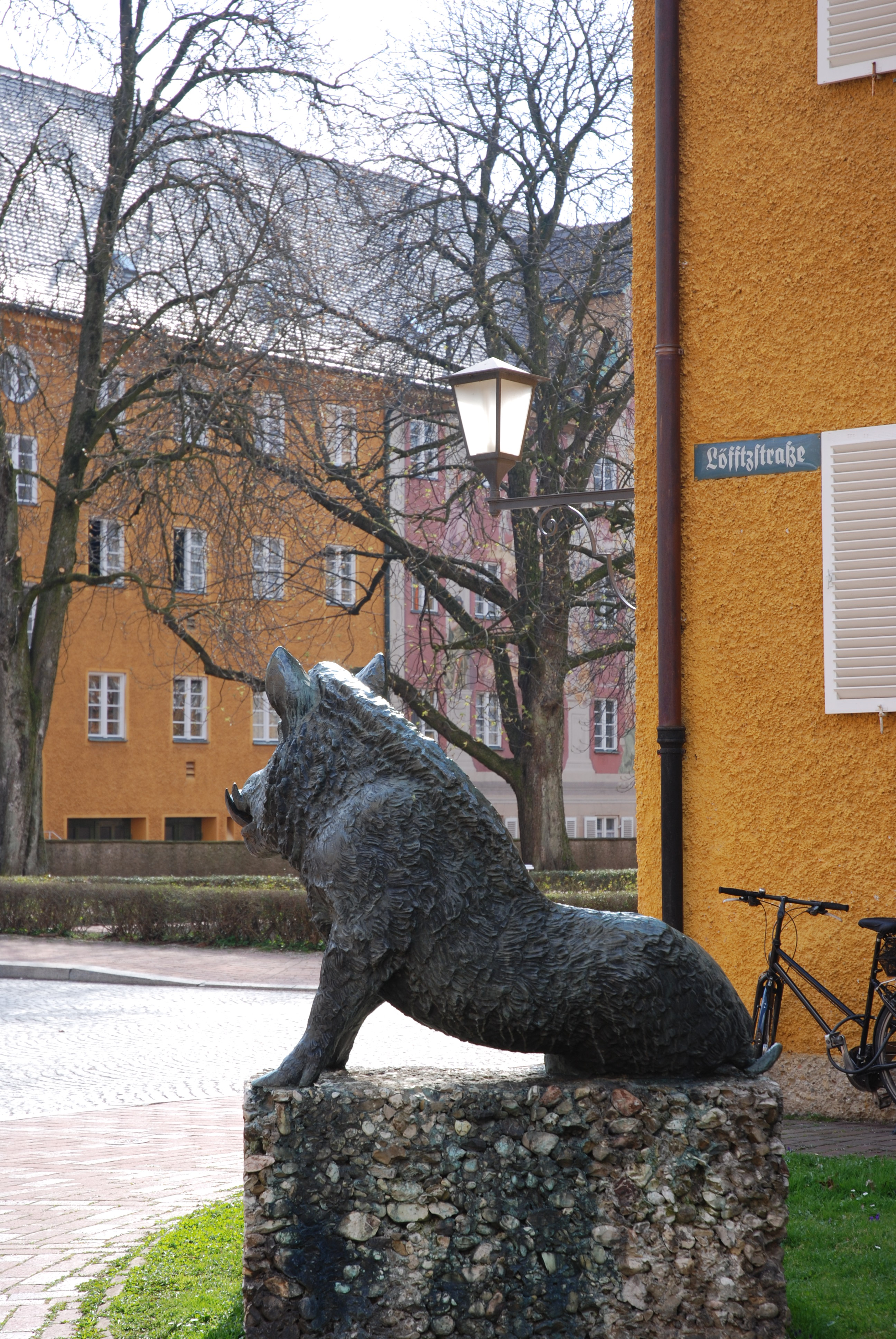 Löfft-Strasse in Borstei in München, mit Martin Mayer' s Sitzende Keiler